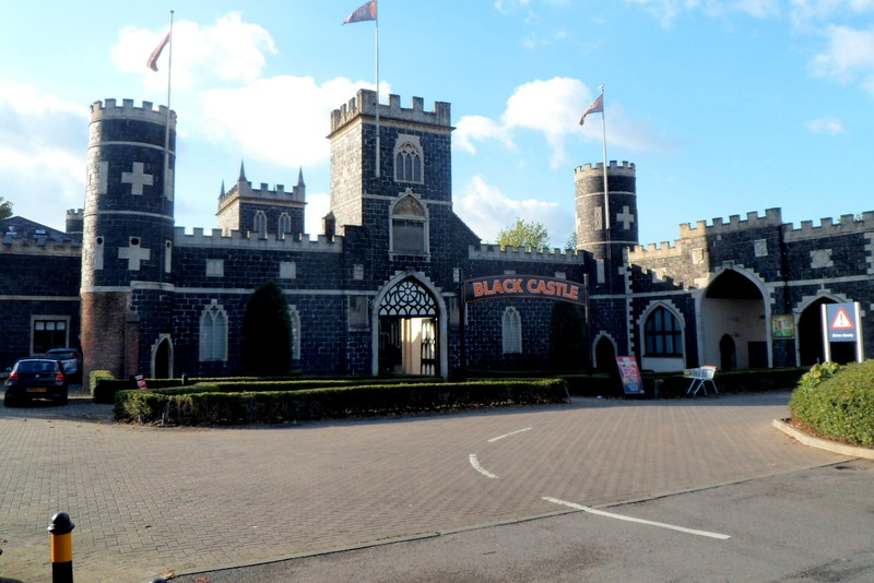 Black Castle, Brislington, Bristol